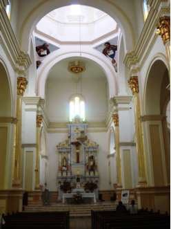 Catedral_san_sebastian_la_plata